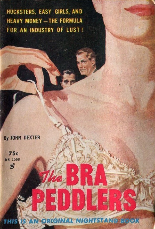 Cover of "The Bra Peddlers" by John Dexter (Robert Silverberg). Illustration by Harold W. McCauley.